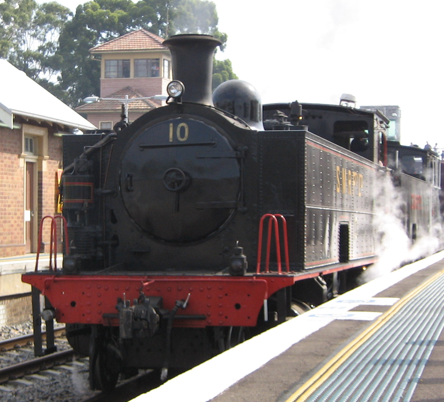 SMR 10 to depart Maitland during Hunter Valley Steamfest 2007